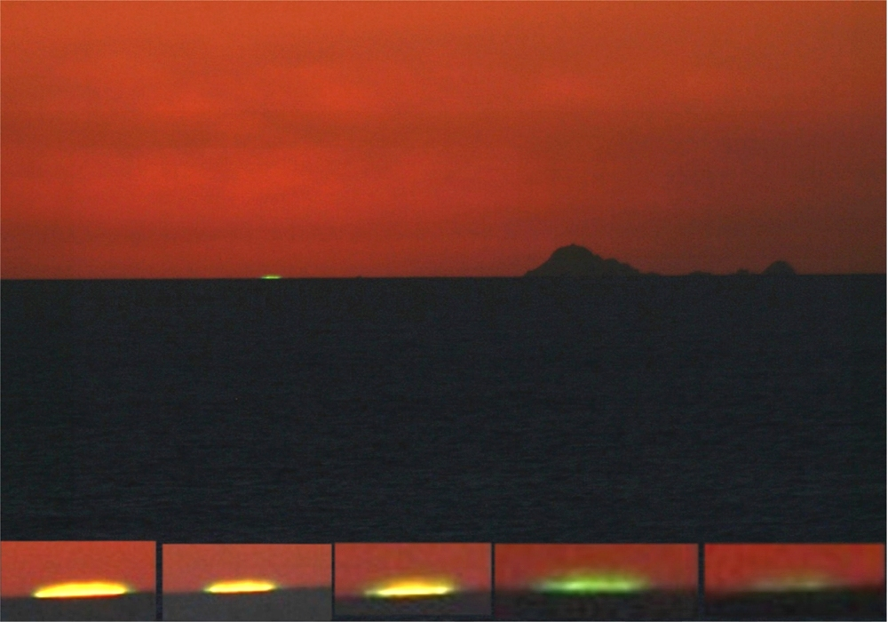 Inferior mirageGreen Flash The images were taken in San Francisco. You also could see Farallon Islands. To see Farallon Islands from San Francisco is almost as rare as to see a green flash.